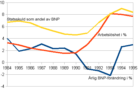 Economy indicators for Sweden 1984-1995. Blue graph: GDP growth (%). Red graph: Unemployment (% of labour force) Yellow graph: The State debt as a share of GDP (in tenths of GDP) Source: Statistisk årsbok (SCB).